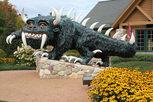 Statue of a hodag in Rhinelander, Wisconsin, United States